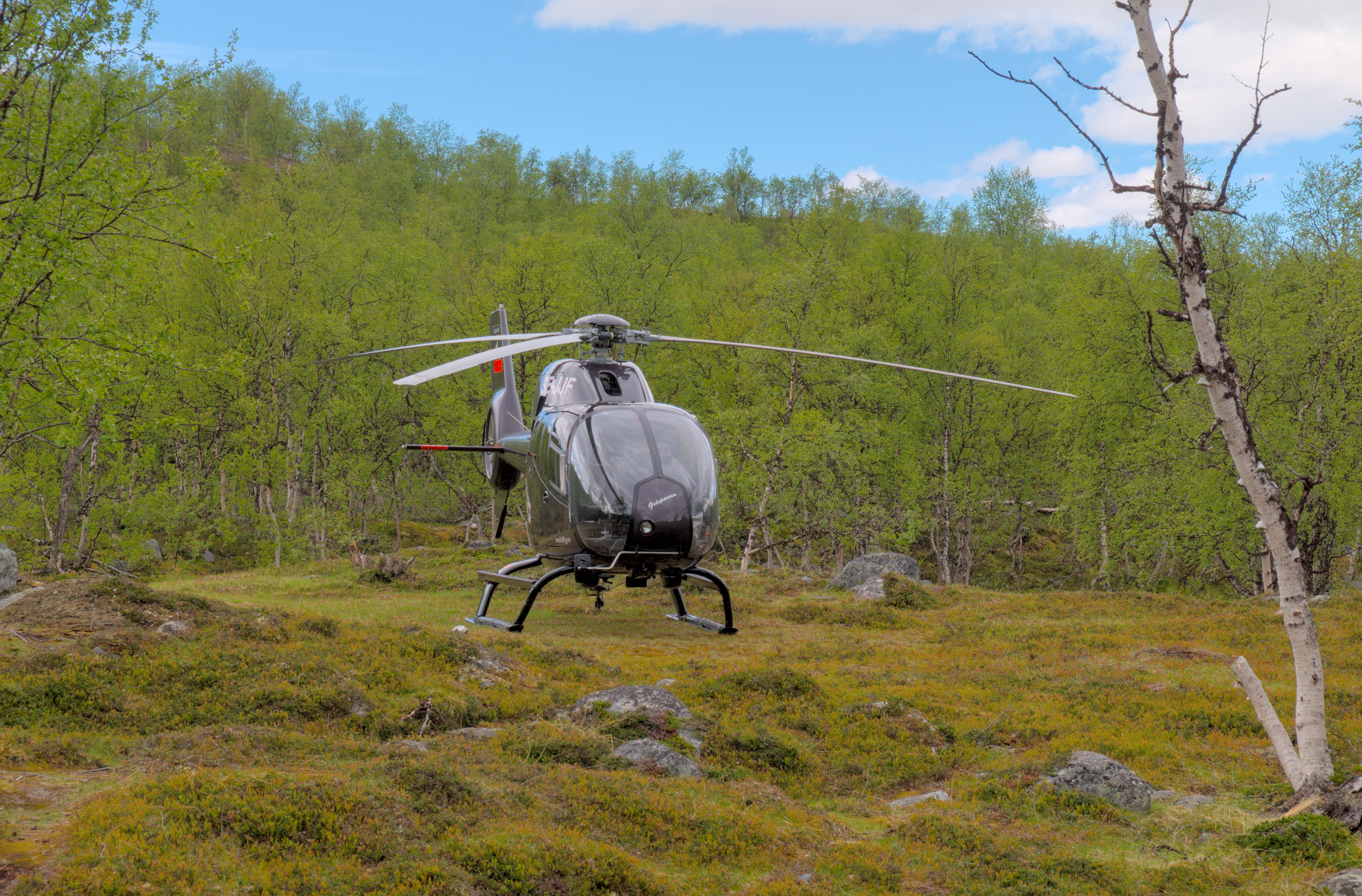 SE-JJF Airbus EC 120B Colibri helicopter operated by Fiskflyg in Sarek National Park